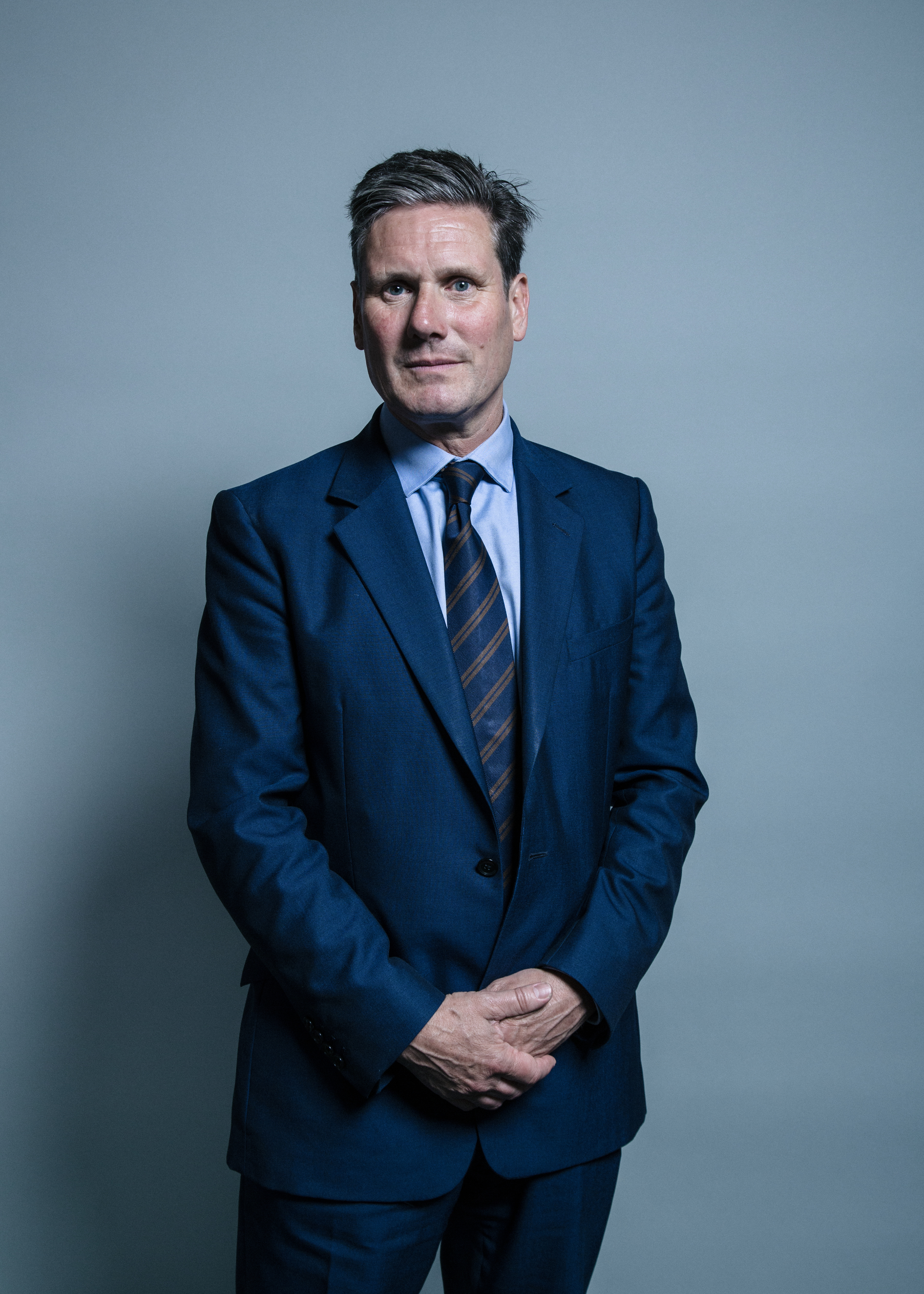 Official portrait of Keir Starmer